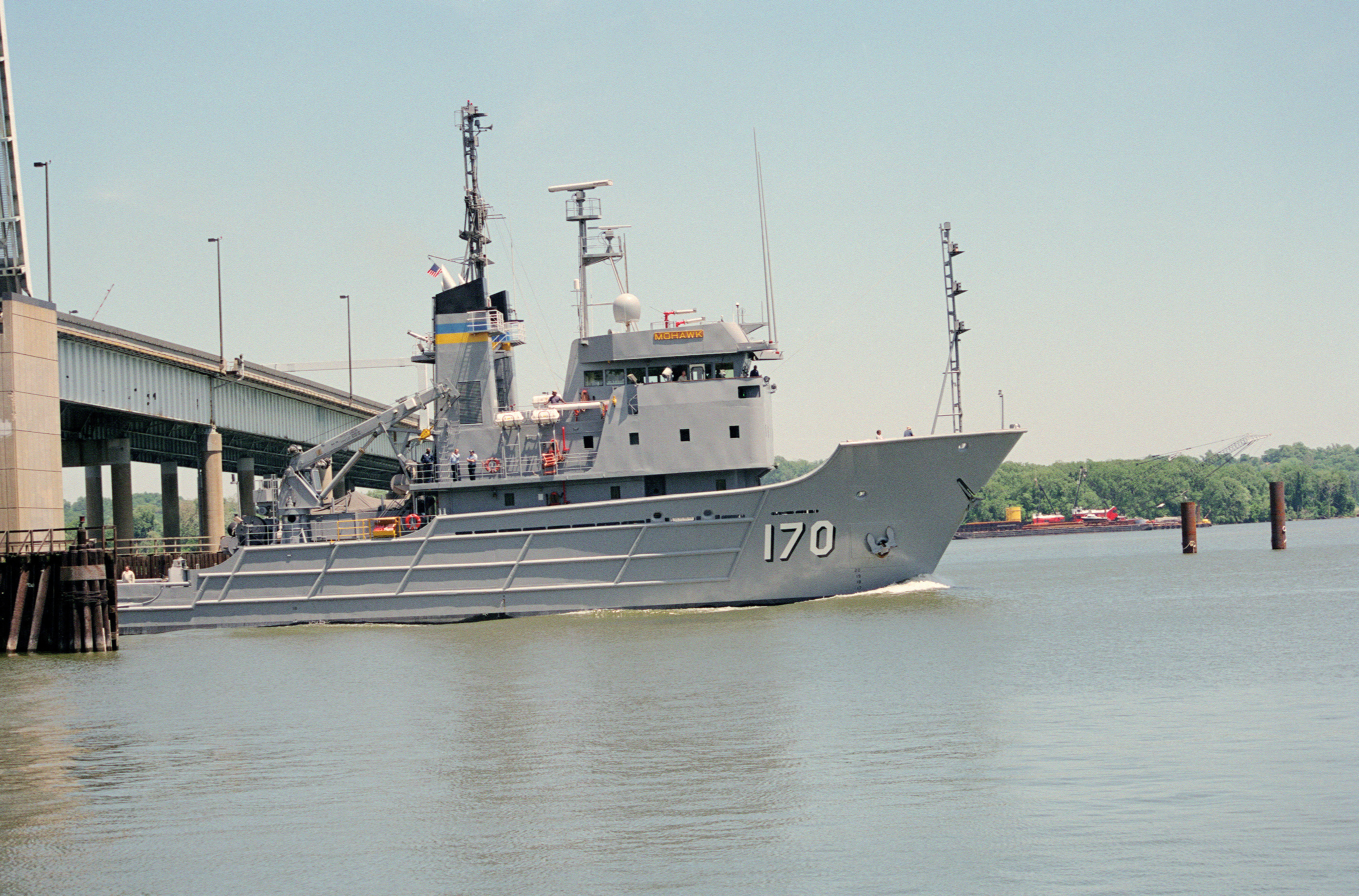 Port side bow view of the Military Sealift Command (MSC) fleet tug USNS MOHAWK (T-ATF 170) passing out of the open draw of the Woodrow Wilson Memorial Bridge en route down river. Location: POTOMAC RIVER, WASHINGTON, DISTRICT OF COLUMBIA (DC) UNITED STATES OF AMERICA (USA)